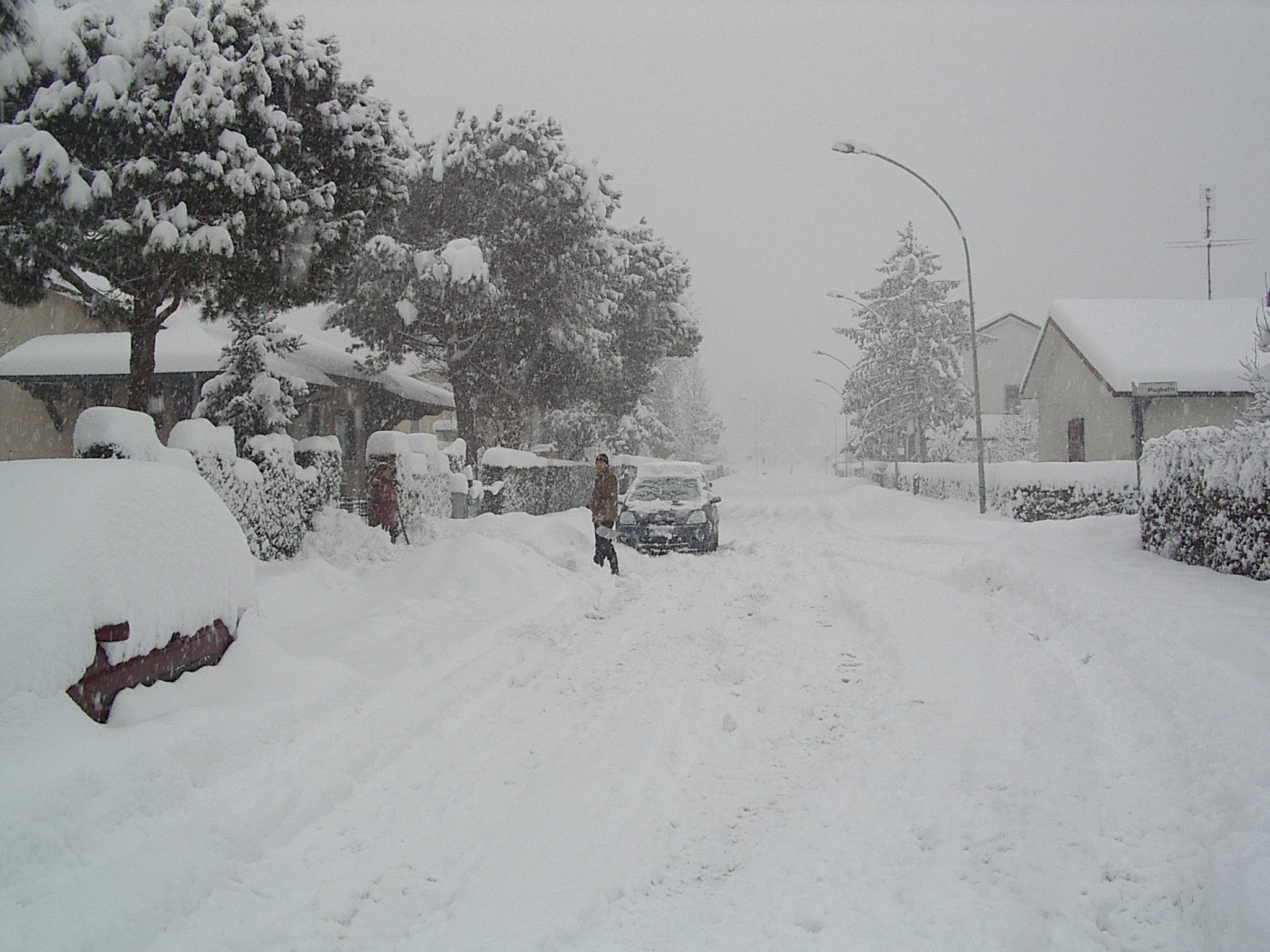 the great snowfall of 2006 at Dresano, Italy